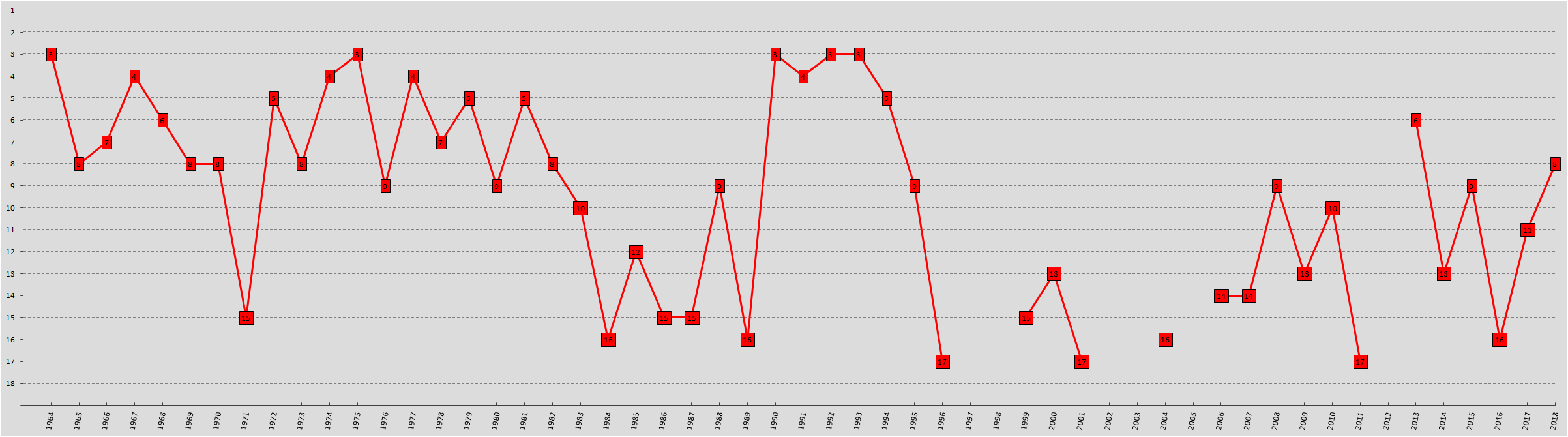 Finishing positions of Eintracht Frankfurt in the 1st Fussball Bundesliga (data source for version of 27th May 2018: Kicker.de) Notes: 1984: Stayed in the top-flight through win in relegation play-off matches against MSV Duisburg (5:0 and 1:1). 1989: Stayed in the top-flight through win in relegation play-off matches against 1. FC Saarbrücken (2:0 and 1:2). 2000: Finished on position 13 together with FC Schalke 04 due to identical number of points (34) and identical goal ratio (42:44), Hansa Rostock then followed on position 15. 2016: Stayed in the top-flight through win in relegation play-off matches against 1. FC Nuremberg (1:1 and 1:0).